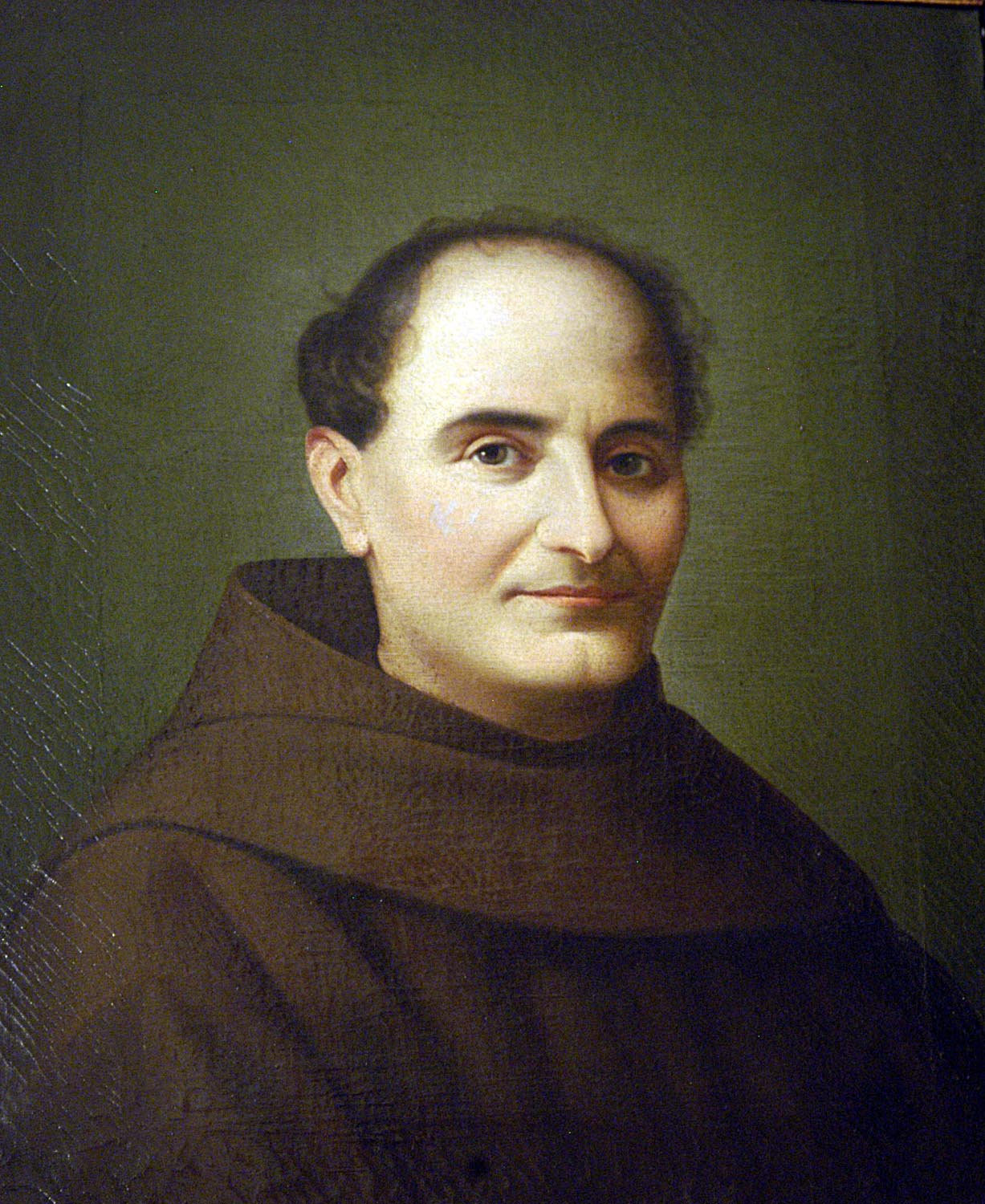 father Agostino da Montefeltro